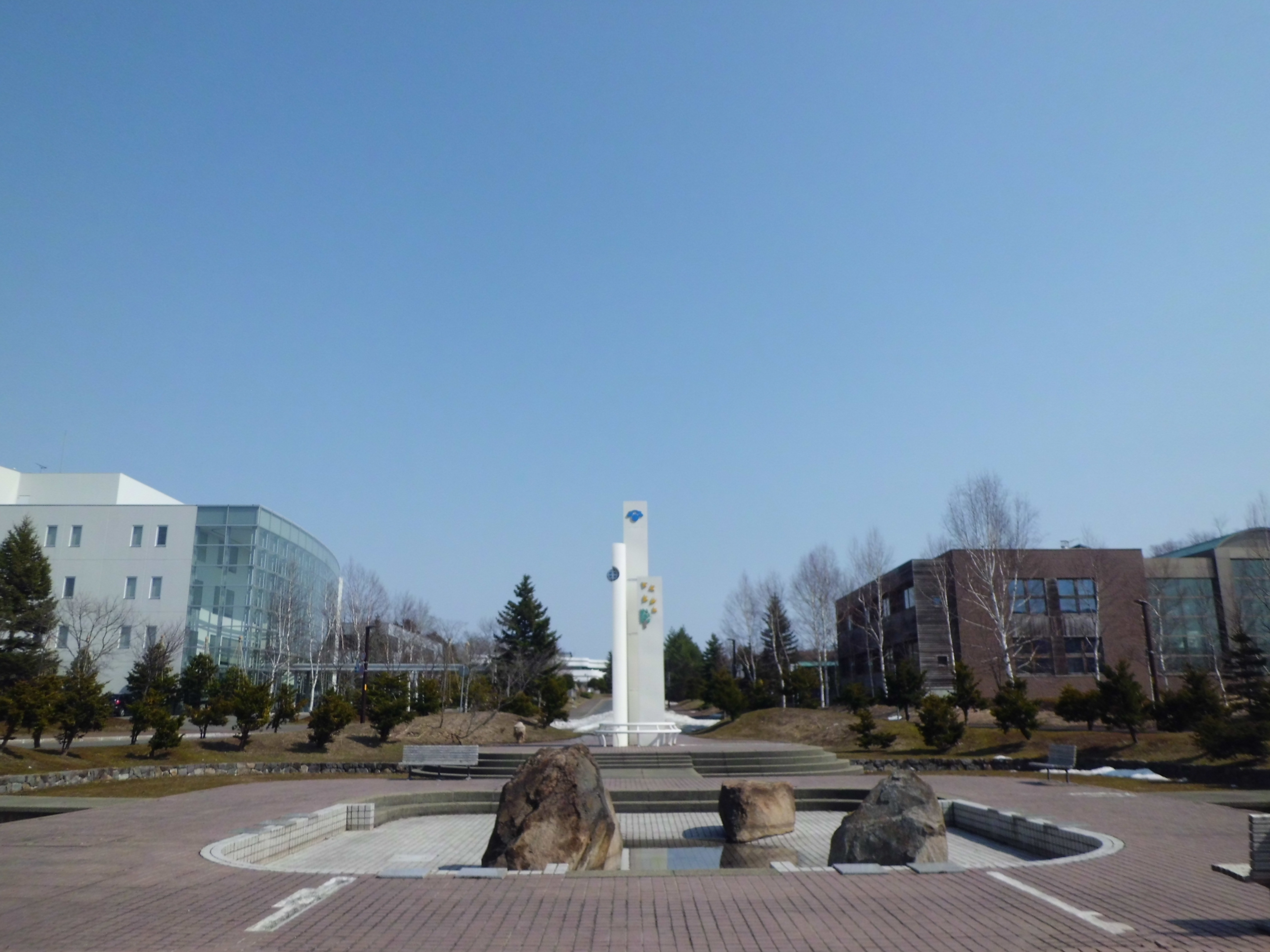 Shimonopporo 2nd Techno Park